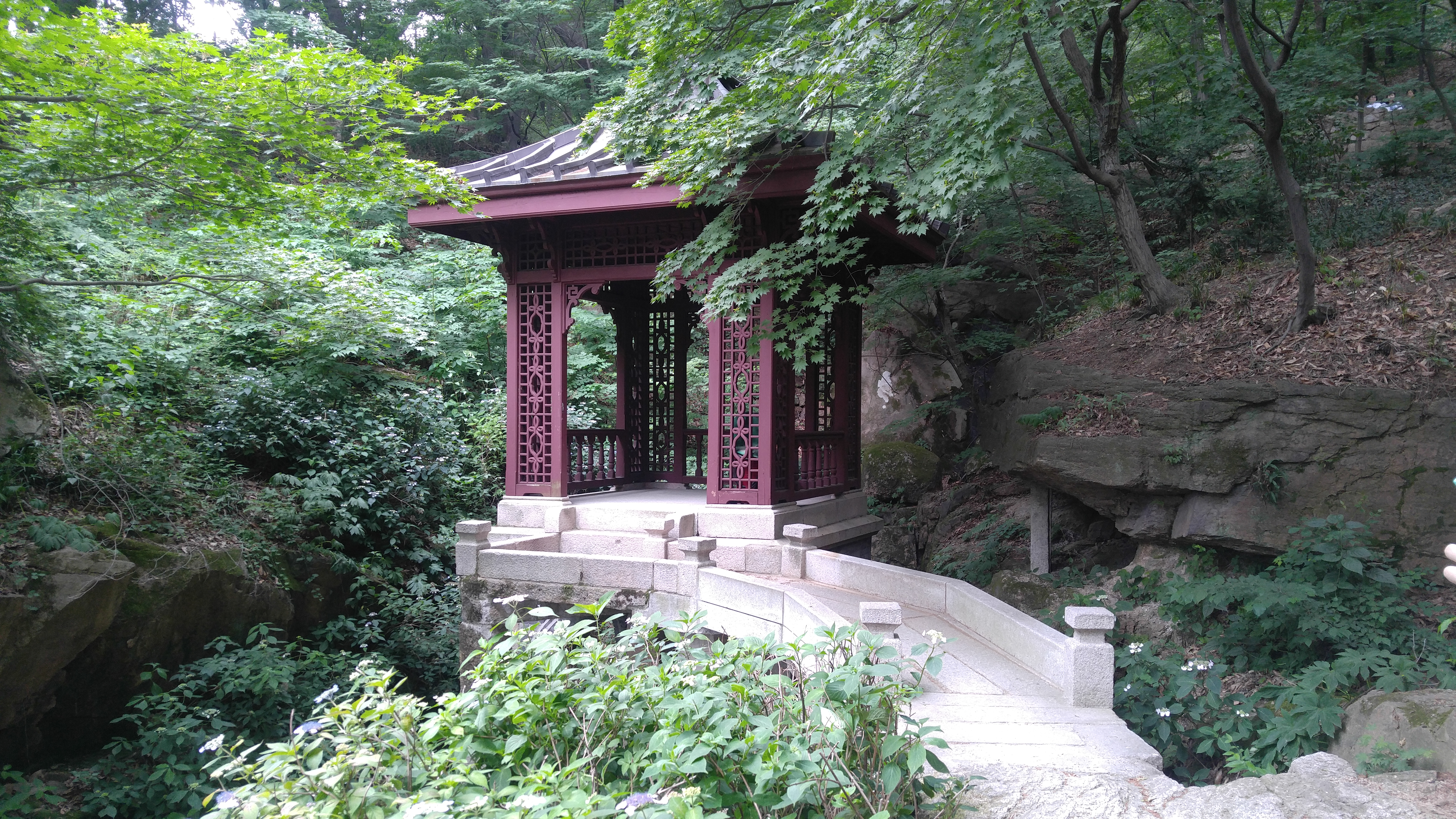 Seokpajeong